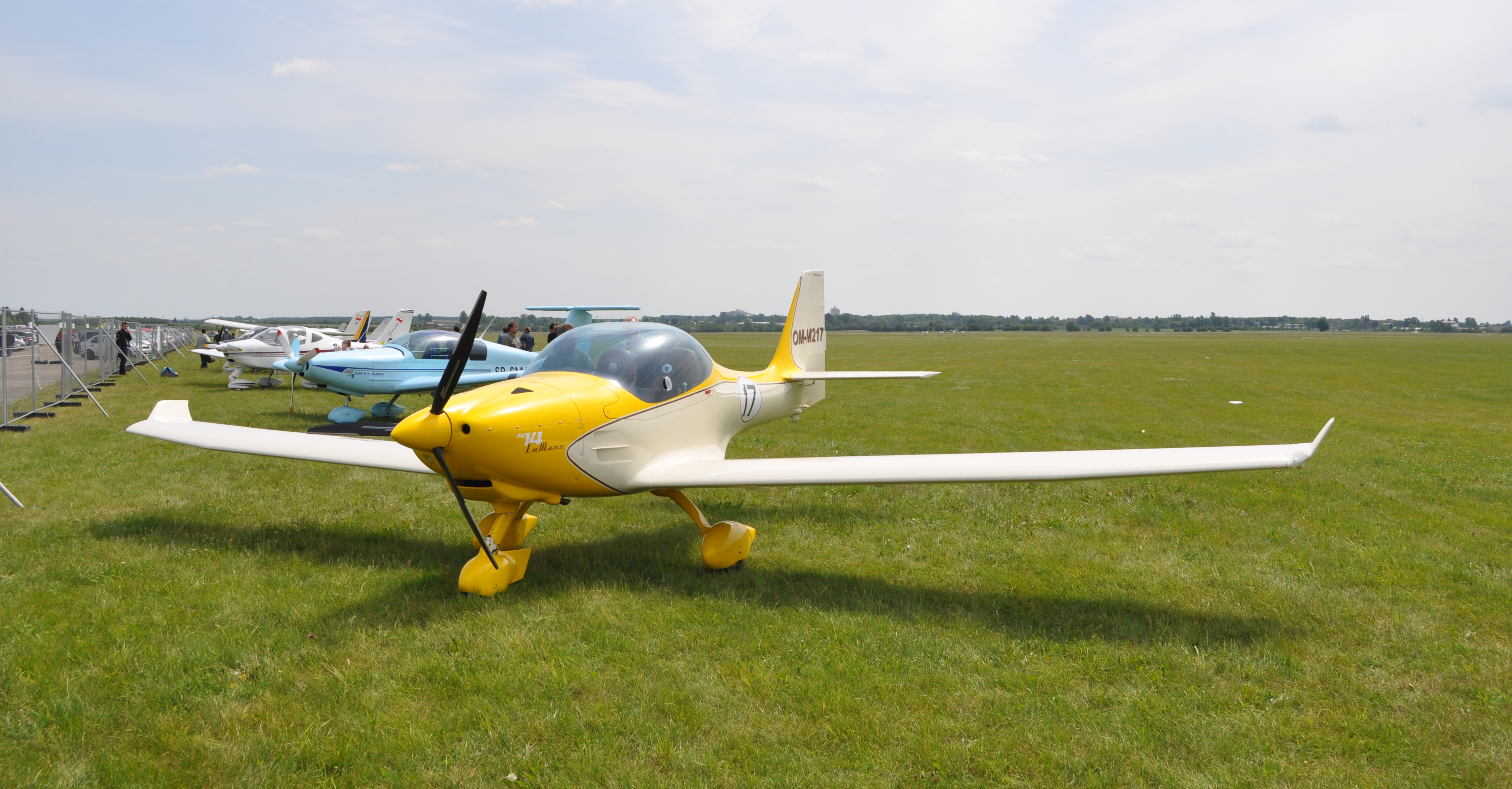 B&F FK14 Le Mans at ParaRudniki 2012